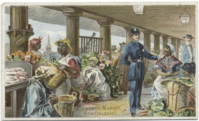 French Market, New Orleans, 1880s. Lithograph scene with policemen and vendors